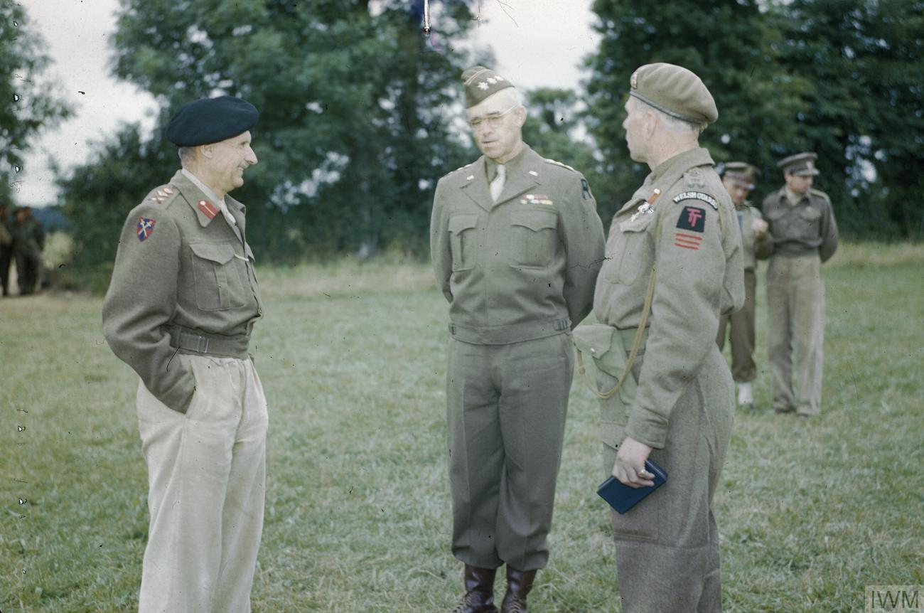 American Decorations For British Officers at General Montgomery's Headquarters, Normandy, 13 July 1944 General Sir Bernard Montgomery with the Commander of the United States 1st Army, General Omar Bradley (centre) and Brigadier Sir Alexander Stanier at General Montgomery's Headquarters in Normandy. General Stanier had just received the Silver Star from General Bradley on behalf of President Roosevelt.